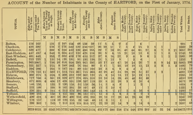 Census of Colony of Connecticut, Hartford Country, 1774